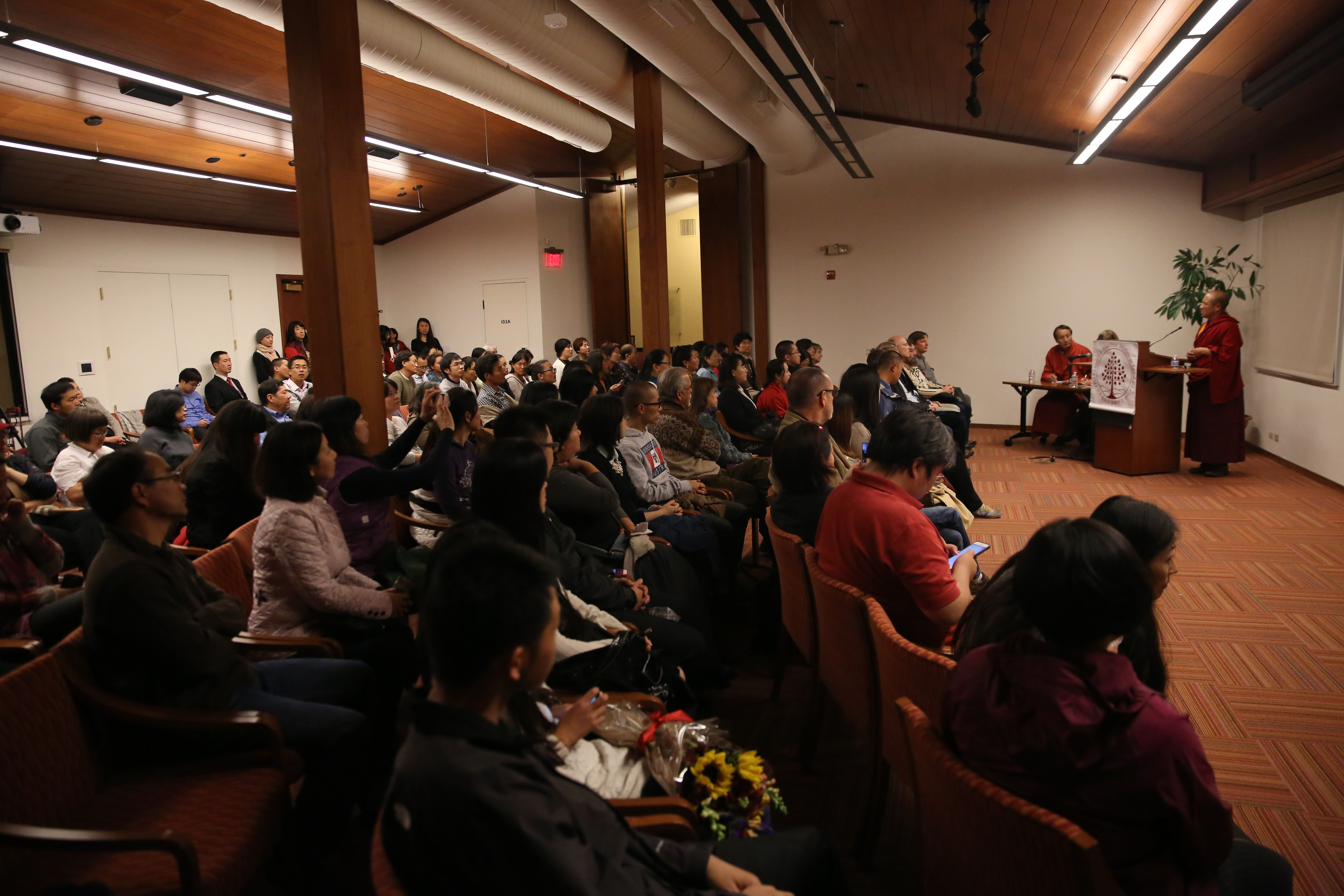 Lecture at Stanford by Khenpo Sodargye